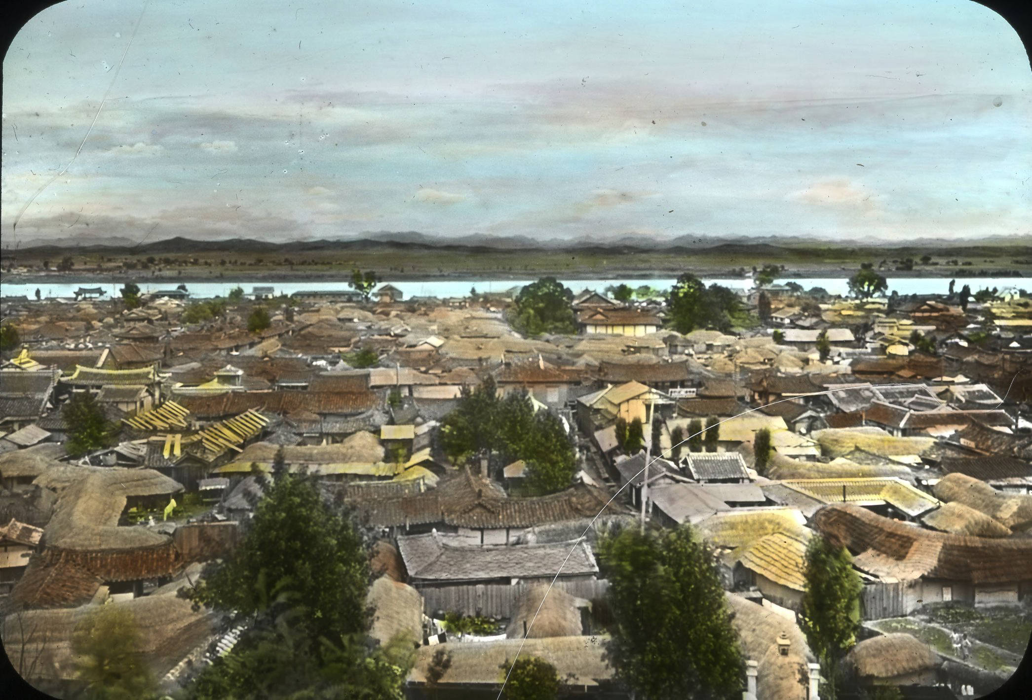 View of Pyengyang, [s.d.] In this district, the Methodist Church has a boys' and a girls' high school, 26 primary schools for boys, 12 primary schools for girls, total enrollment of 2,200. There are also three kindergartens and a school for the deaf and blind. Primary school children will sit more closely together to afford room for newcomers. Koreans themselves give more than two-thirds of the support needed for these primary schools, about $750 a month. The city center has a population of about 60,000 in a metropolitan area of about 1,100,000. Date created: 1908/1922 Publisher (of the Digital Version): University of Southern California. Libraries Repository Name: Methodist Church (U.S.) Legacy Record ID: kda-m53 Photographer: Methodist Episcopal Church Format: photograph Archival file: kda_Volume42/Taylor_box45num40.jpg Rights: "Neither the General Conference nor any General Agency of The United Methodist Church (successor to the Methodist Episcopal Church) claims any interest in the photos or images." Part of subcollection: The Reverend Corwin & Nellie Taylor Collection Coverage date: 1908/1922 Contributing entity: University of Southern California Repository Address: Nashville, Tennessee Part of collection: Korean Digital Archive Donor: Taylor, Ewing Bevard Filename: Taylor_box45num40 Type: images Geographic Subject (City or Populated Place): P'yongyang Geographic Subject (Country): Korea Compiler: Taylor, Corwin; Blood-Taylor, Nellie